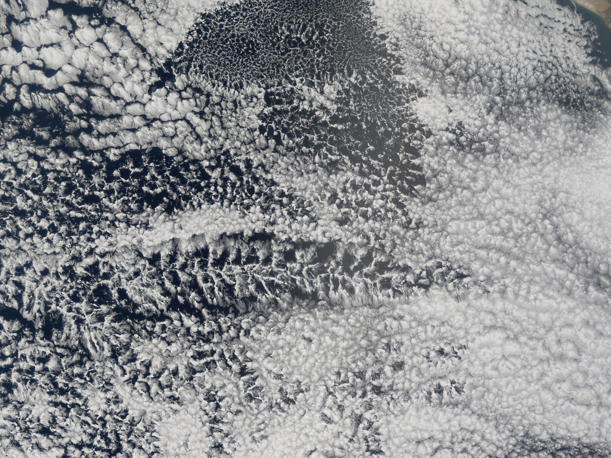 Satellite image of clouds, with an actinoform cloud in the center of the image and an open-cell stratocumulus cloud formation at the center top.